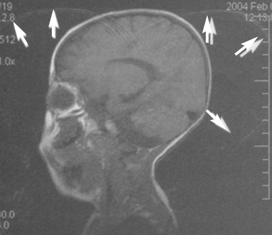 MRI with Gibbs artifacts. For context, see: MRI artifact